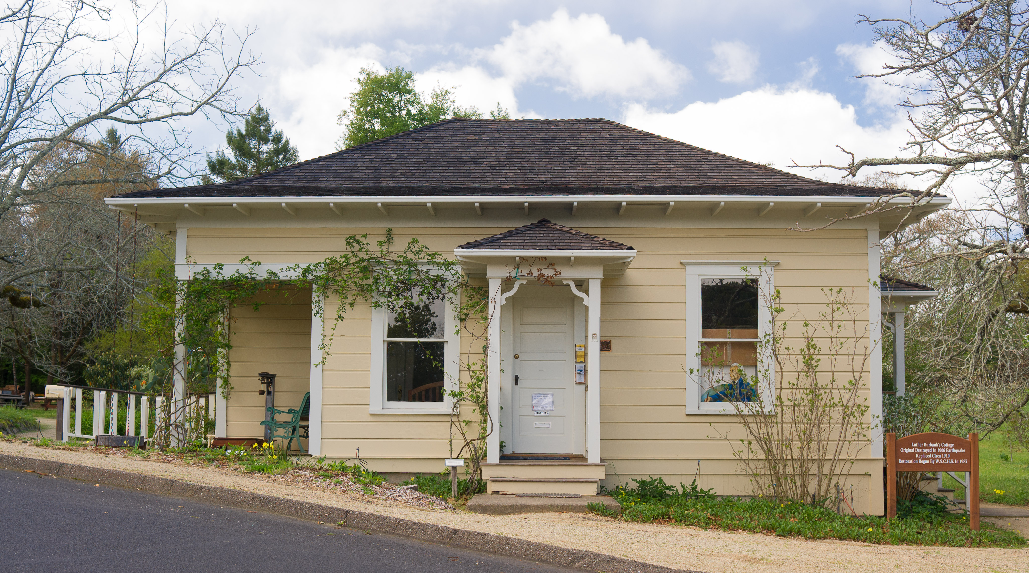 Luther Burbank's cottage (original destroyed in 1906, replaced circa 1910, restored in 1983) at his Gold Ridge Experiment Farm — in Sebastopol, Sonoma County, California. On the National Register of Historic Places.